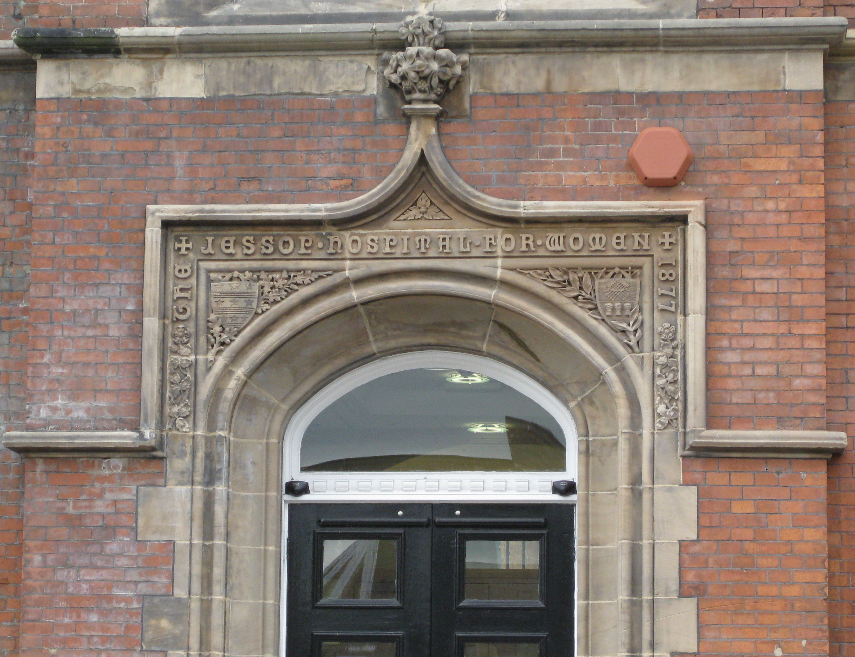 Doorway to Jessop Hospital for Women, now part of the School of Music, University of Sheffield